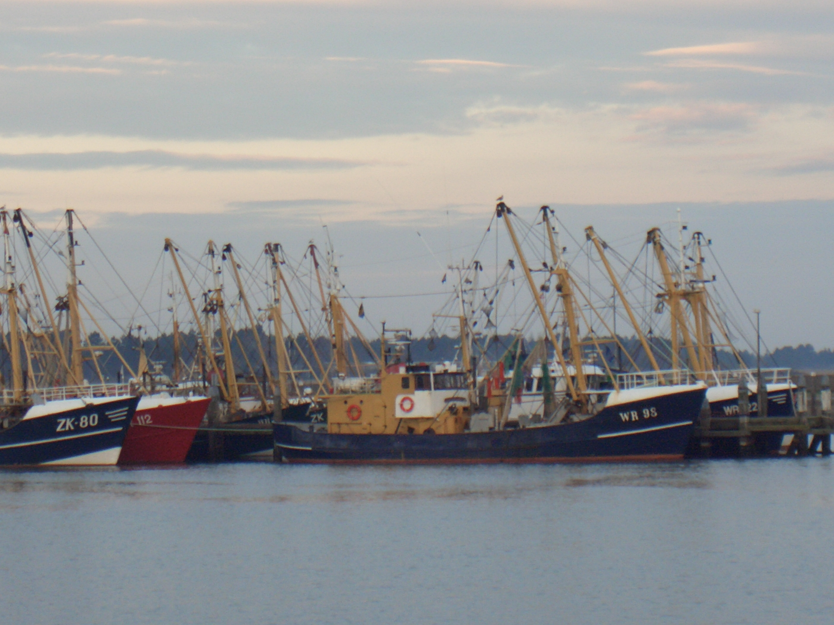 Cutter